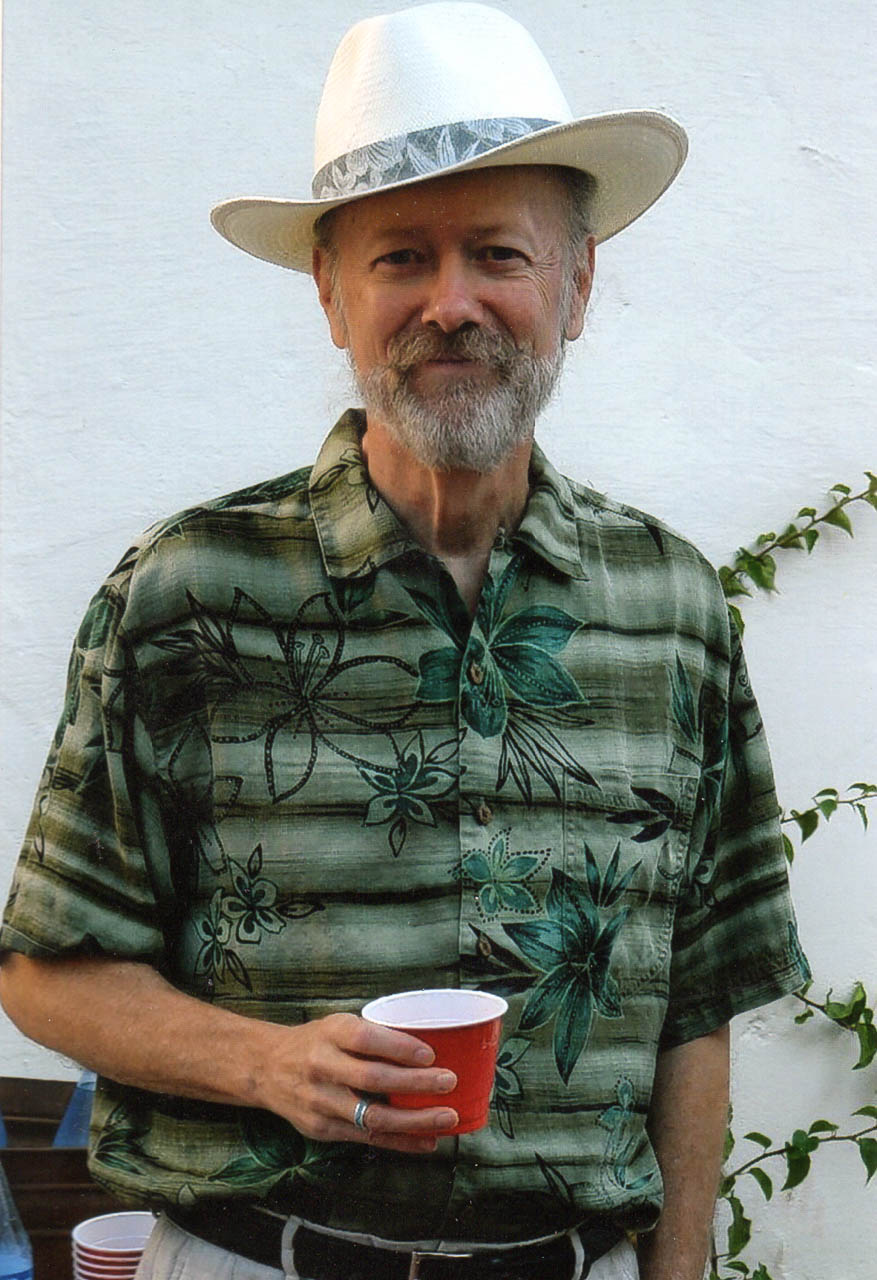 Paul at a barbecue for his lab members at his home in Altadena, CA, in October, 2007.